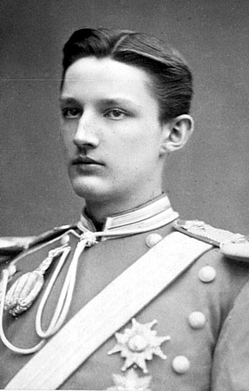 Prince Carl, Duke of Västergötland (1861-1951), 1882